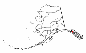 Adapted from Wikipedia's AK borough maps by Seth Ilys.